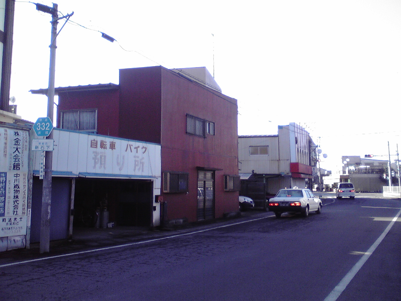 Ibaraki prefectural road No.354 Ishige Station line.